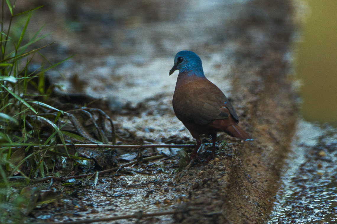 A Blue-headed Wood-Dove (Turtur brehmeri) in the Ankasa Conservation Area (Ghana)